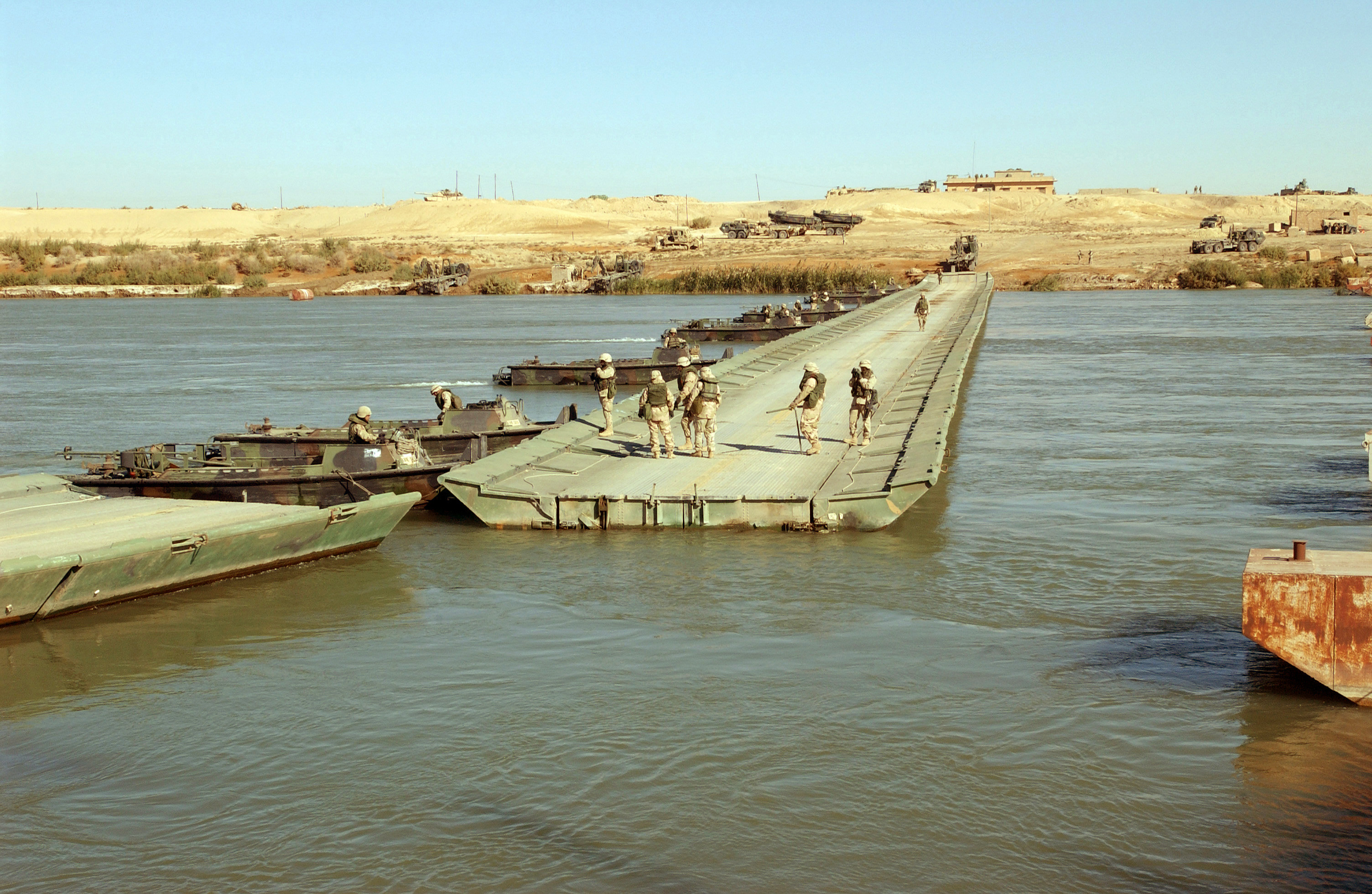 U.S. Army 502nd Engineer Company Soldiers dismantle a Standard Ribbon Bridge on the Euphrates River near Al Qaim, Iraq, on Dec. 2, 2004